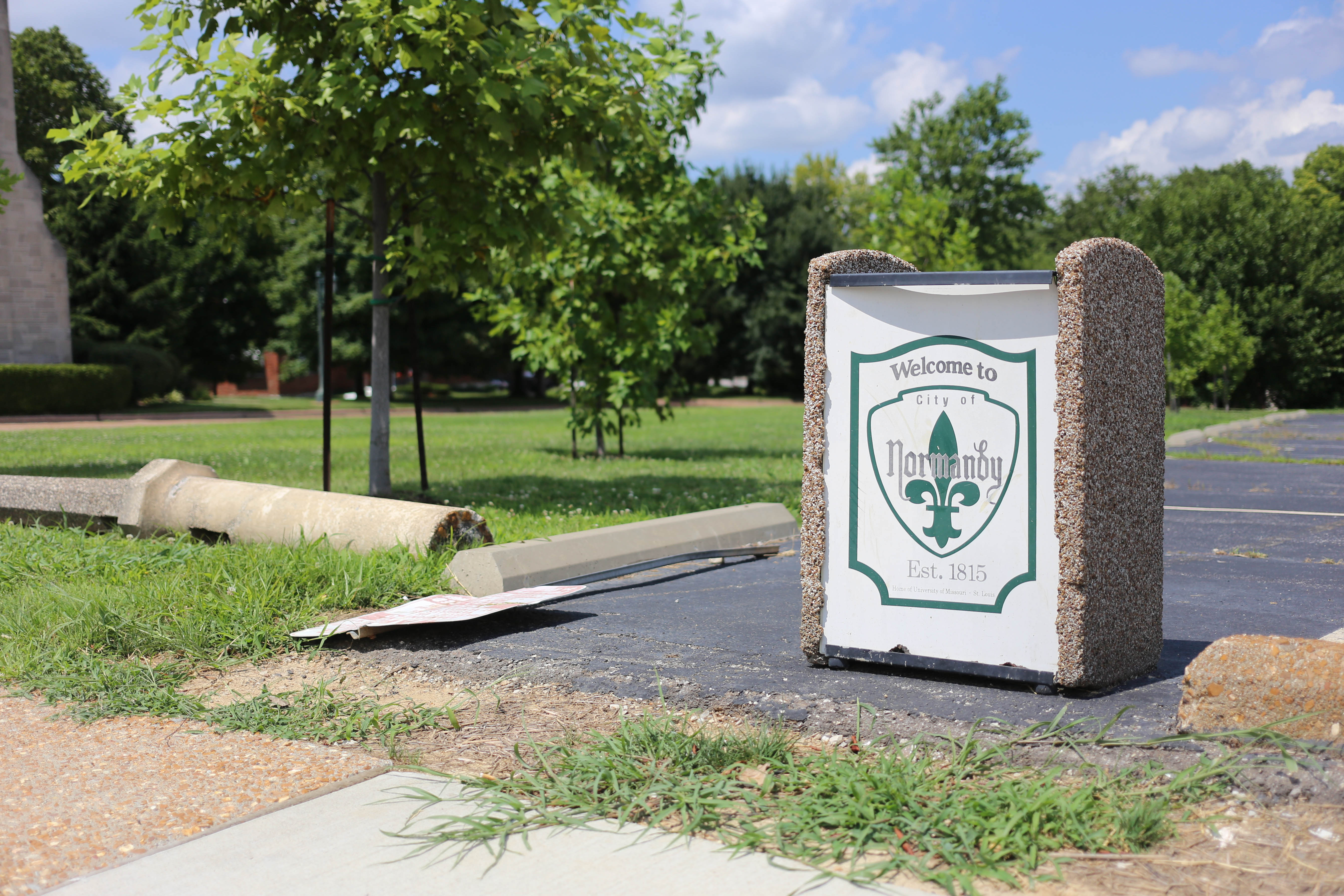 Welcome to City of Normandy Est. 1815